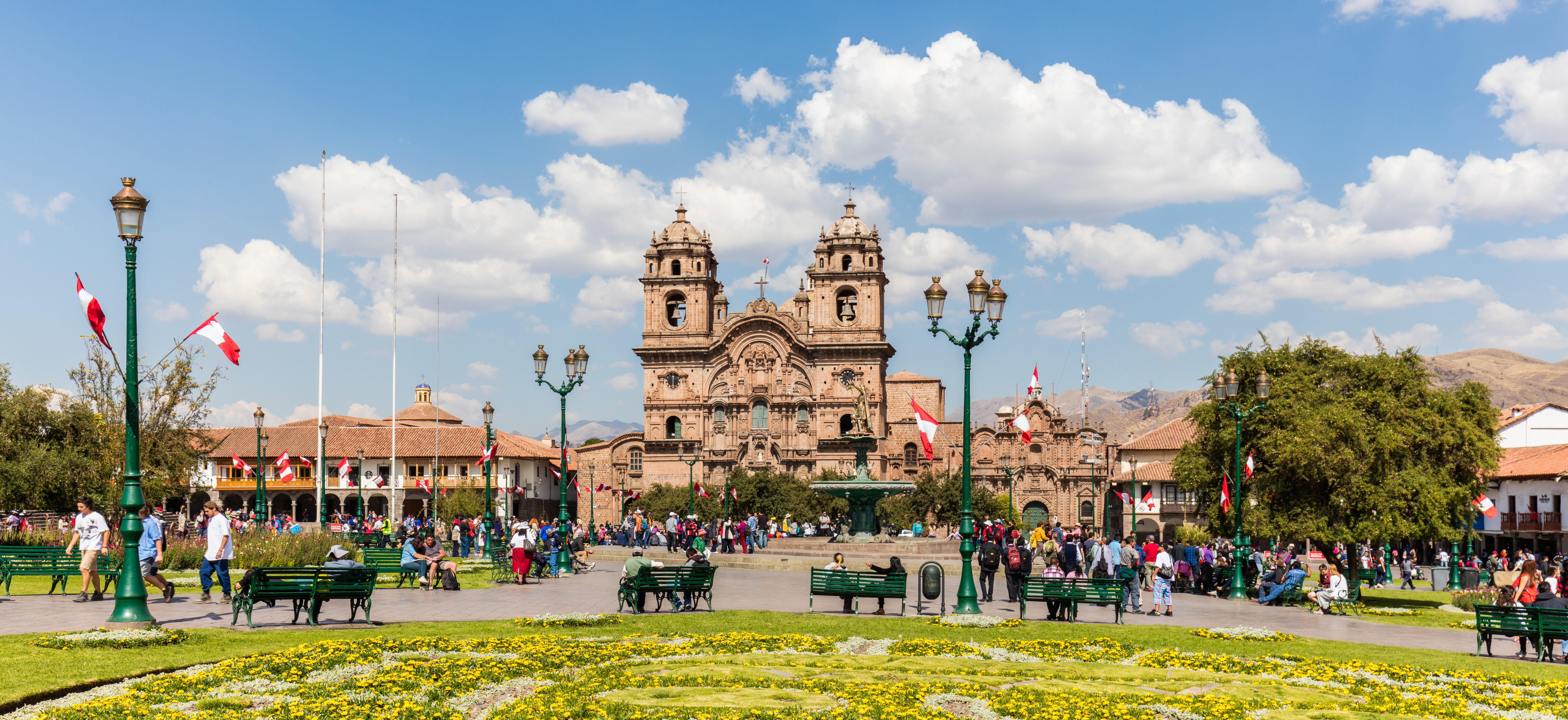 Society of Jesus church, Plaza de Armas, Cusco, Peru